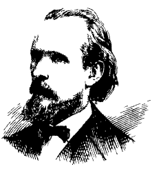 German art historian Albert von Zahn (1836–1873).